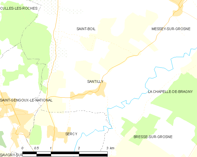 Map of French municipality